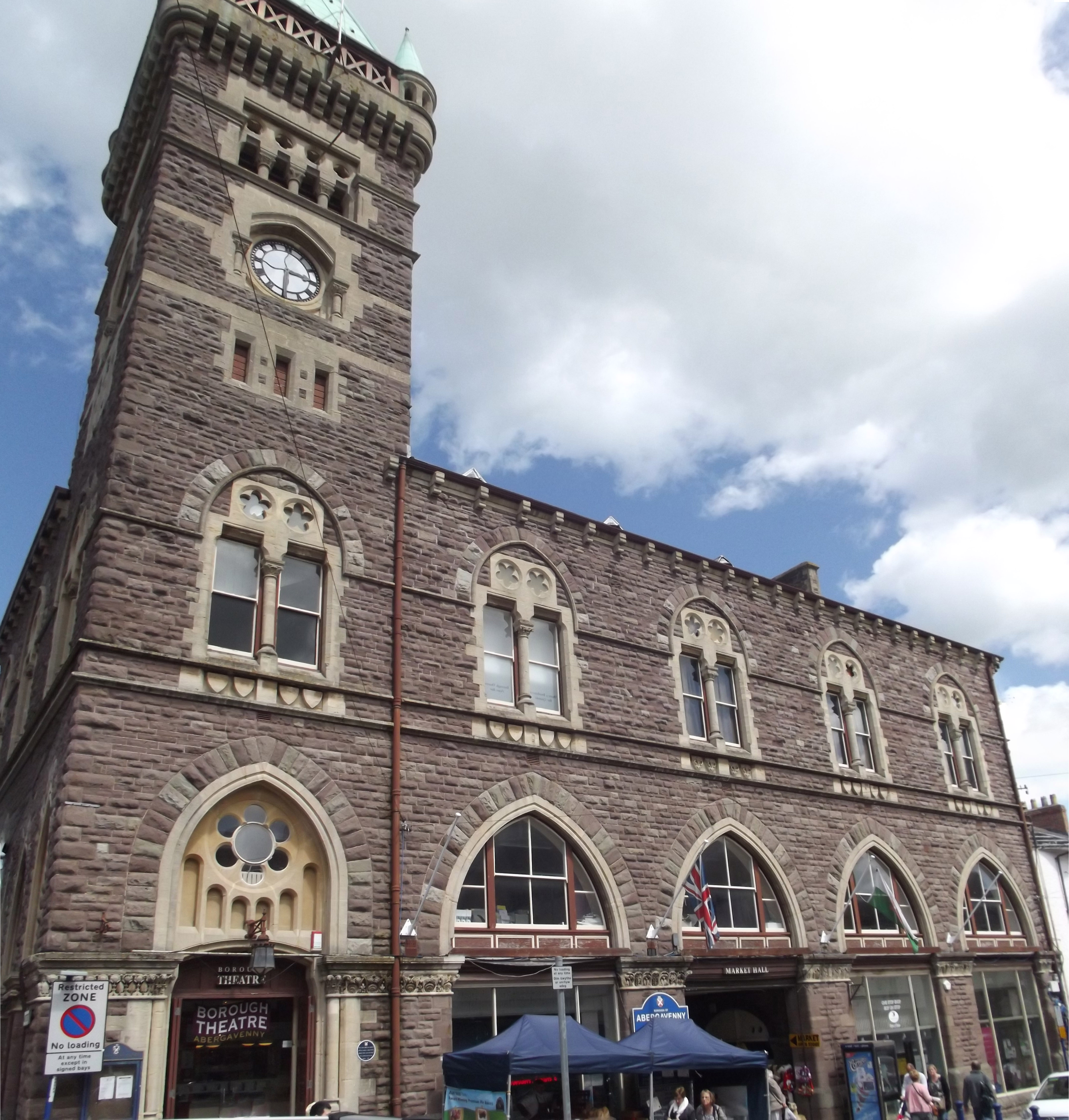 At the Market Hall in Abergavenny, Monmouthshire, South Wales. It is housed below the Town Hall. One one side is also the Borough Theatre. As well as the indoor market, there was some market stalls outside at the back. The main entrance is on Cross Street. It is Grade II listed as the Town Hall.